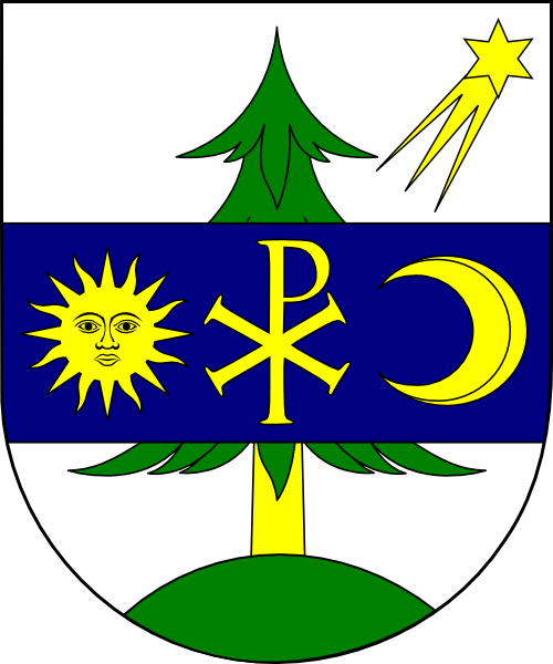 Coat of arms (shield only) of Áron Márton, bishop of Alba Iulia, Romania (1938 - 1980).